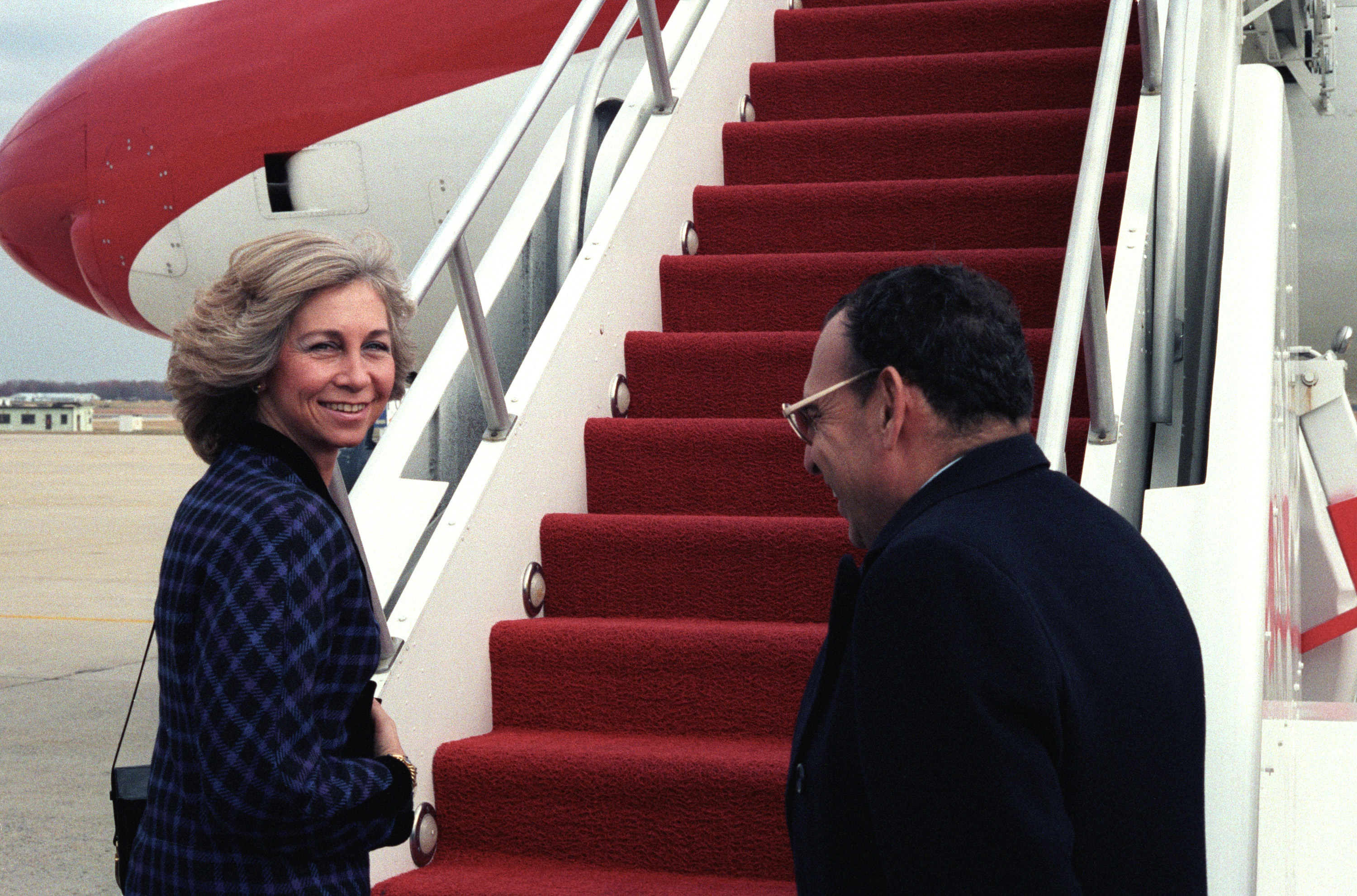 Queen Sofía of Spain prepares to depart the United States.